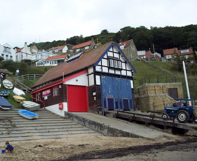 Lifeboat Station, Runswick Bay In 1901 the village women launched the heavy lifeboat themselves to save their fishermen husbands whose boats had been caught in a sudden squall.